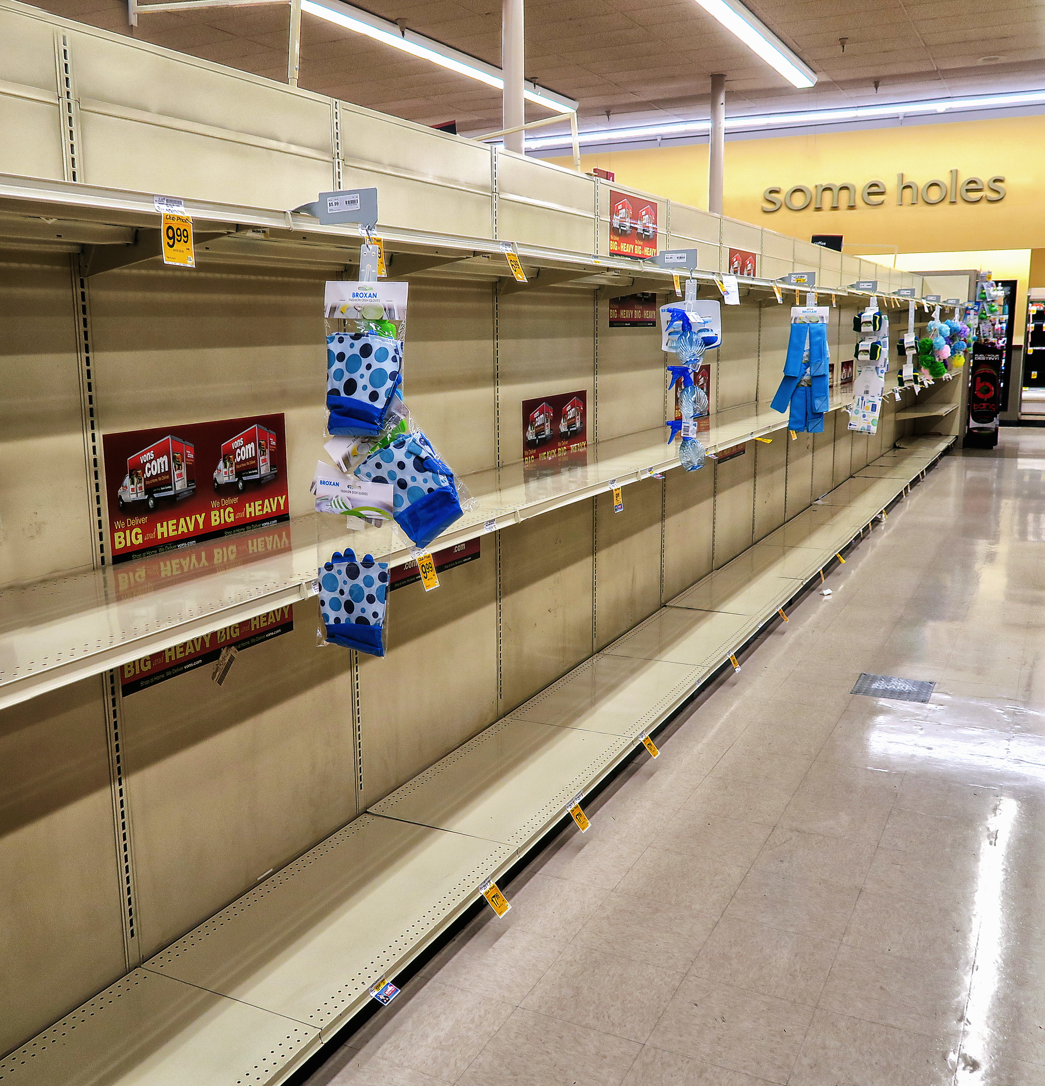 Empty shelves in the paper section of a Target store in Southern California.